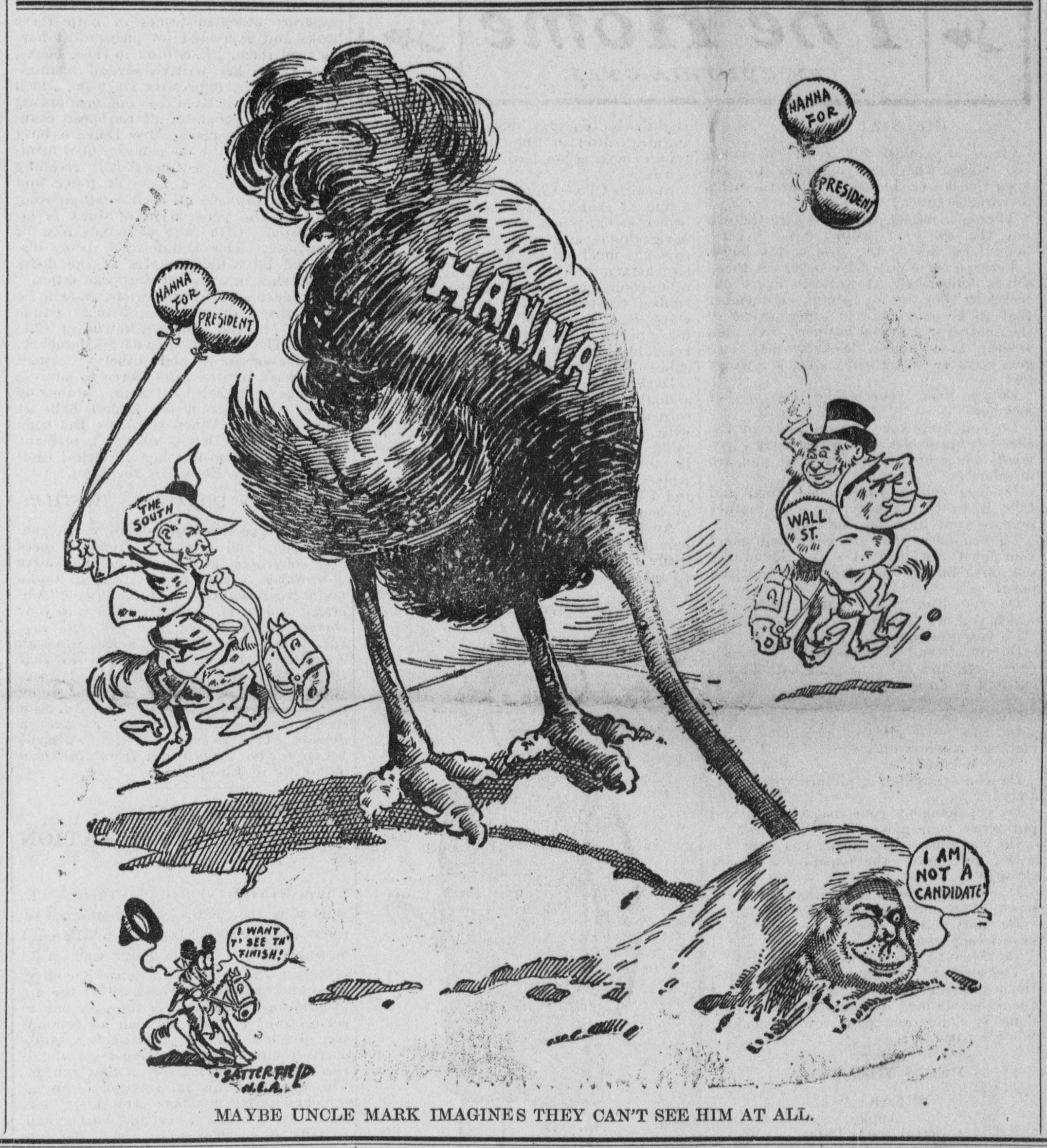 In this 1904 editorial cartoon, Bob Satterfield portrays Mark Hanna as an ostrich "hiding his head in the sand", while "the South" and "Wall Street" eagerly demand that Hanna run for President of the United States.